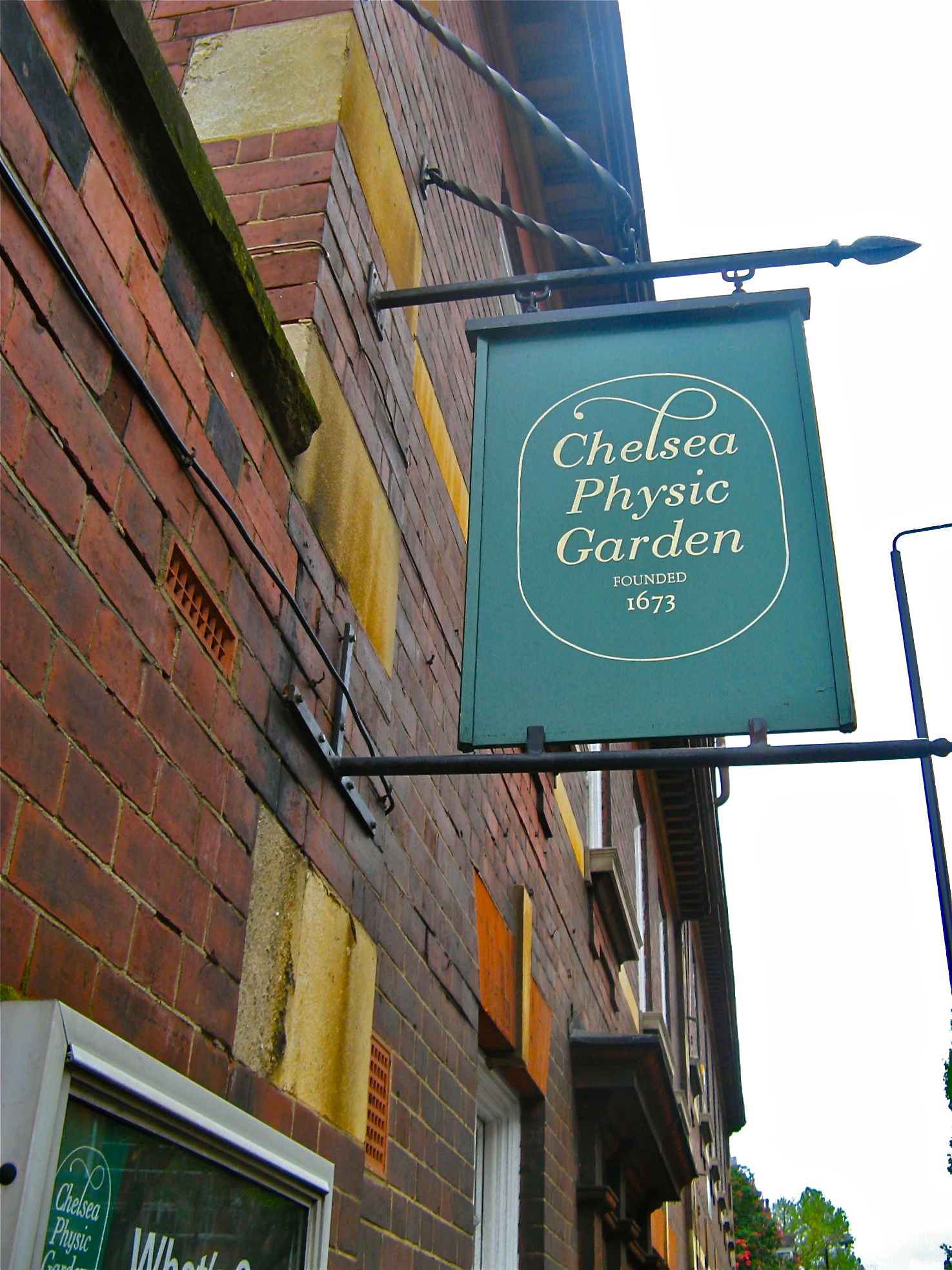 Ensign at the west entrance of Chelsea Physic Garden.